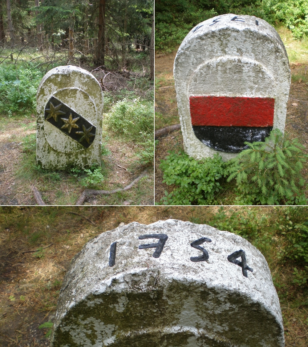 Historical landmark from year 1754 close city of Aš (with Zedtwitz from Aš Region and von Lindenfels from Erkersreuth CoA.